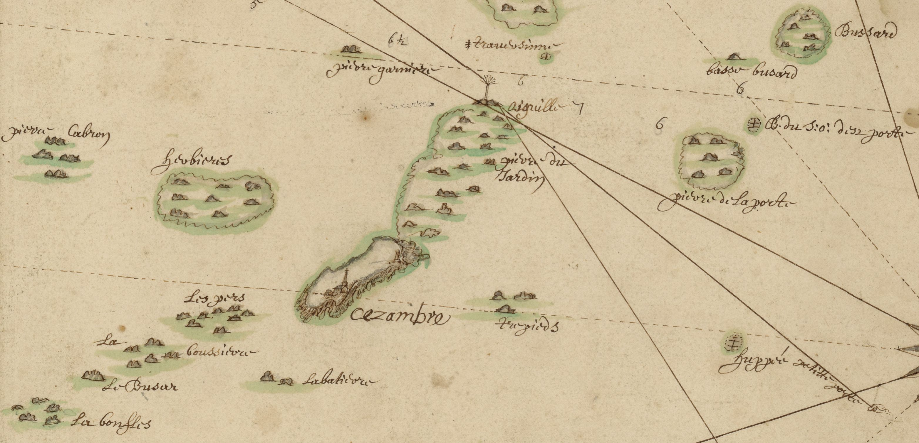 Extract of a map of Saint Malo showing the island of Cézembre and the surrounding islets. A chapel is drawn on the island. Date of creation of the map is unknown (around 16th or 17th century)